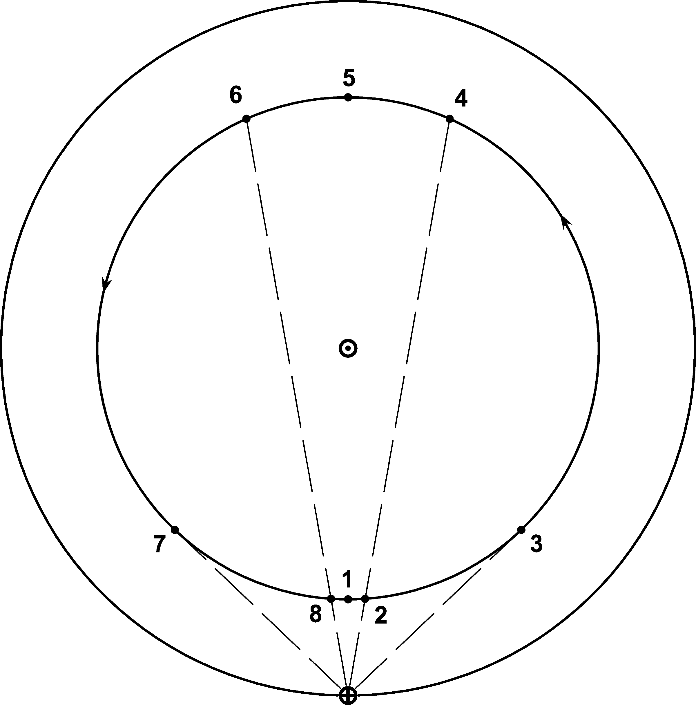 The diagram shows phenomena related to visibility of Venus from Earth in one synodic period of Venus. 1 Inferior conjunction 2 Heliacal rising 3 Maximum western elongation 4 Heliacal setting 5 Superior conjunction 6 Acronychal rising 7 Maximum eastern elongation 8 Acronychal setting